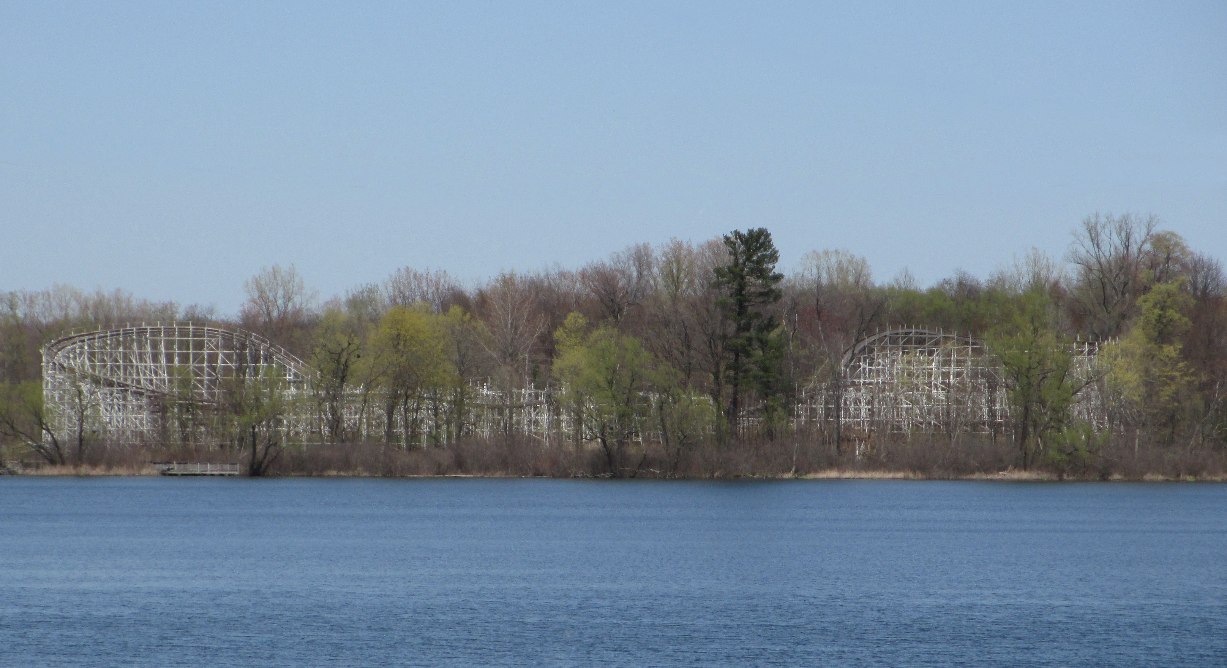 View of the remnants of the Raging Wolf Bobs, at the site of Geauga Lake amusement park. The ride and park closed in 2007 and the center lift hill has been demolished, but the remainder of the track remains as of April 27, 2013.